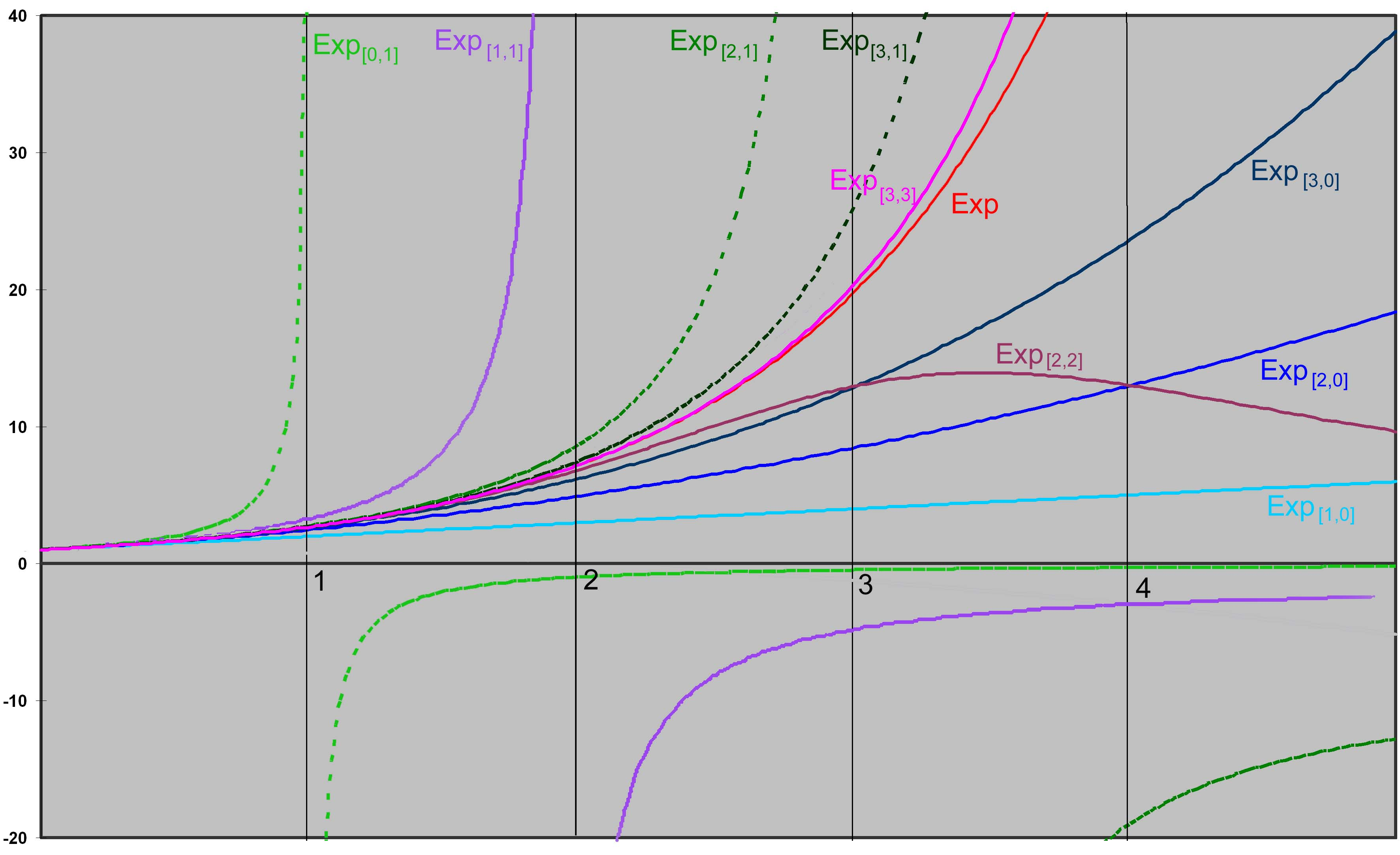 Uniform convergence of Padé approximants to the exponential function